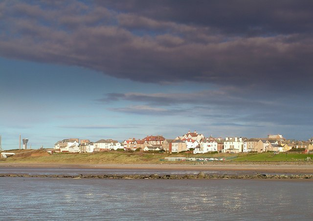 Seascale shoreline, near to Seascale, Cumbria, Great Britain. Seascale became a popular seaside resort with the opening of the Furness Railway in the 1850s. Beyond can be seen the remaining Winscale pile stack, soon to be demolished, where the 1957 fire occurred.